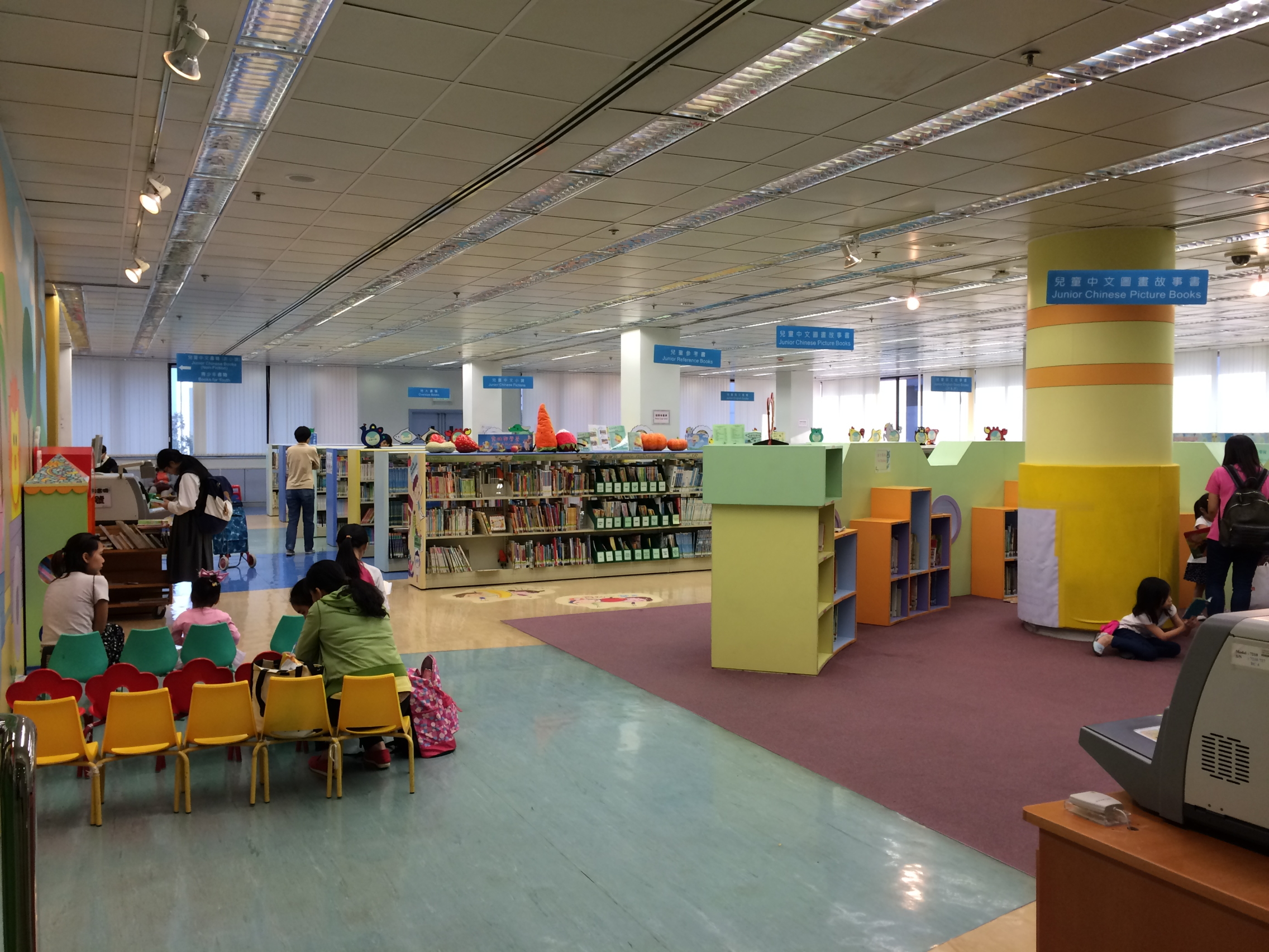 Tuen Mun Public Library 1F Children area